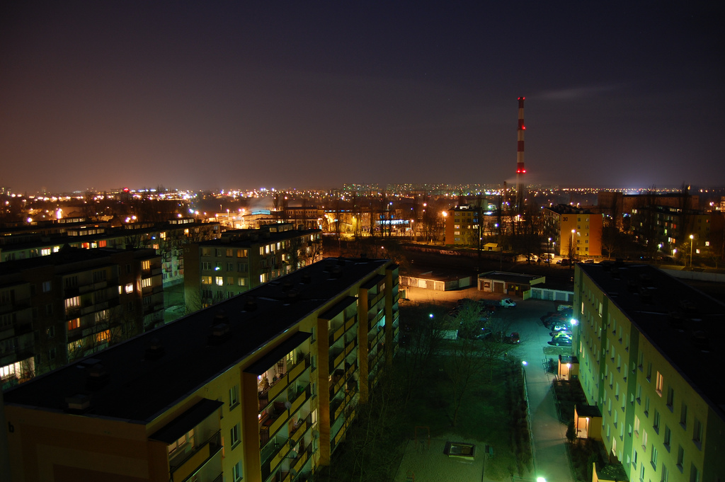 Zazamcze by night